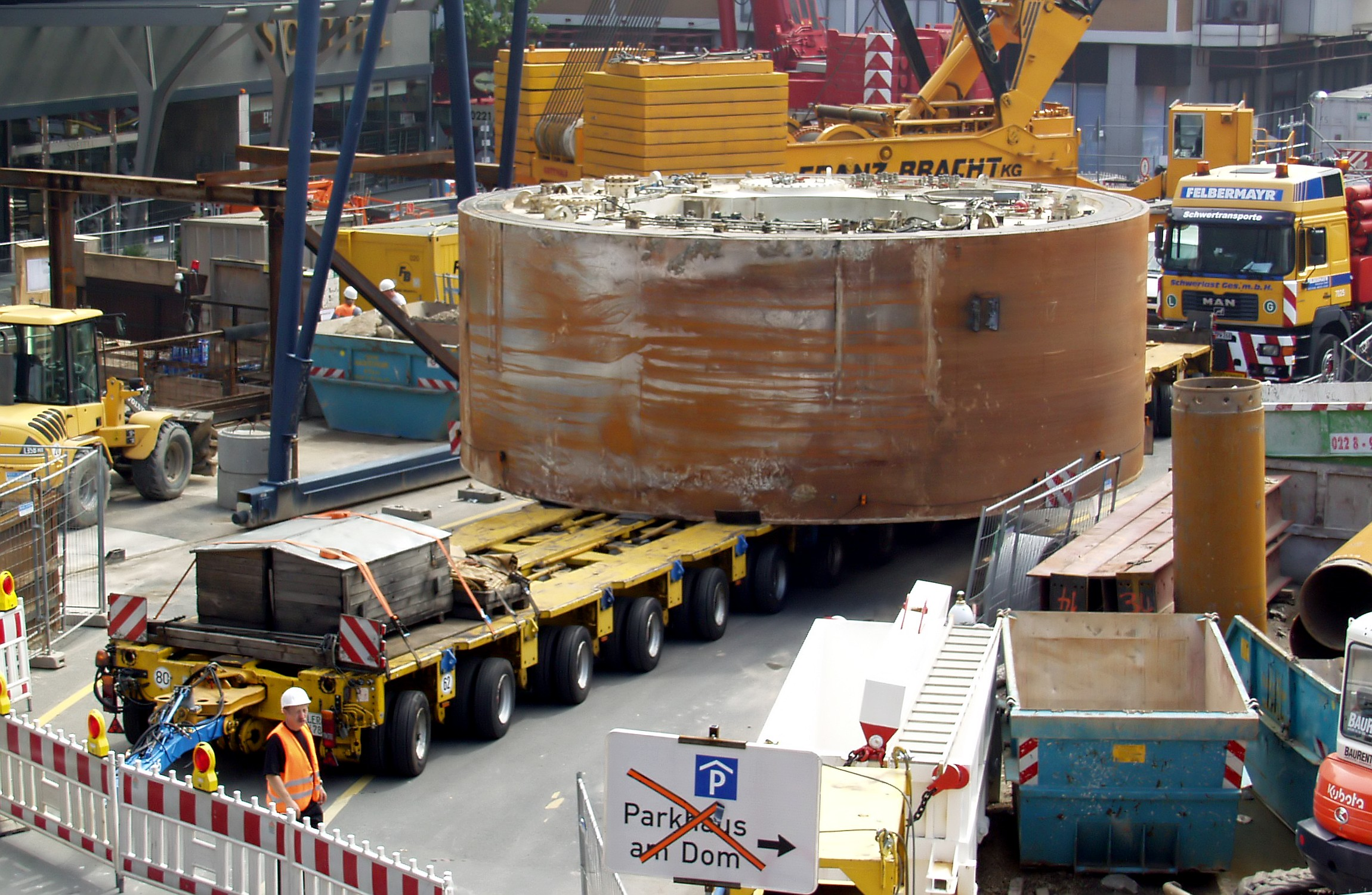 Part of a tunnel boring machine on a low-loading truck after its operation in Cologne, "Nord-Süd-Bahn" (subway)